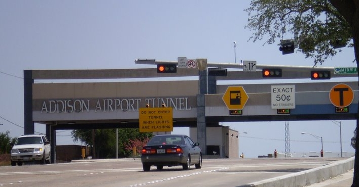 Addison Airport Tunnel at Midway Road and Keller Springs Road on the West side of the airport.